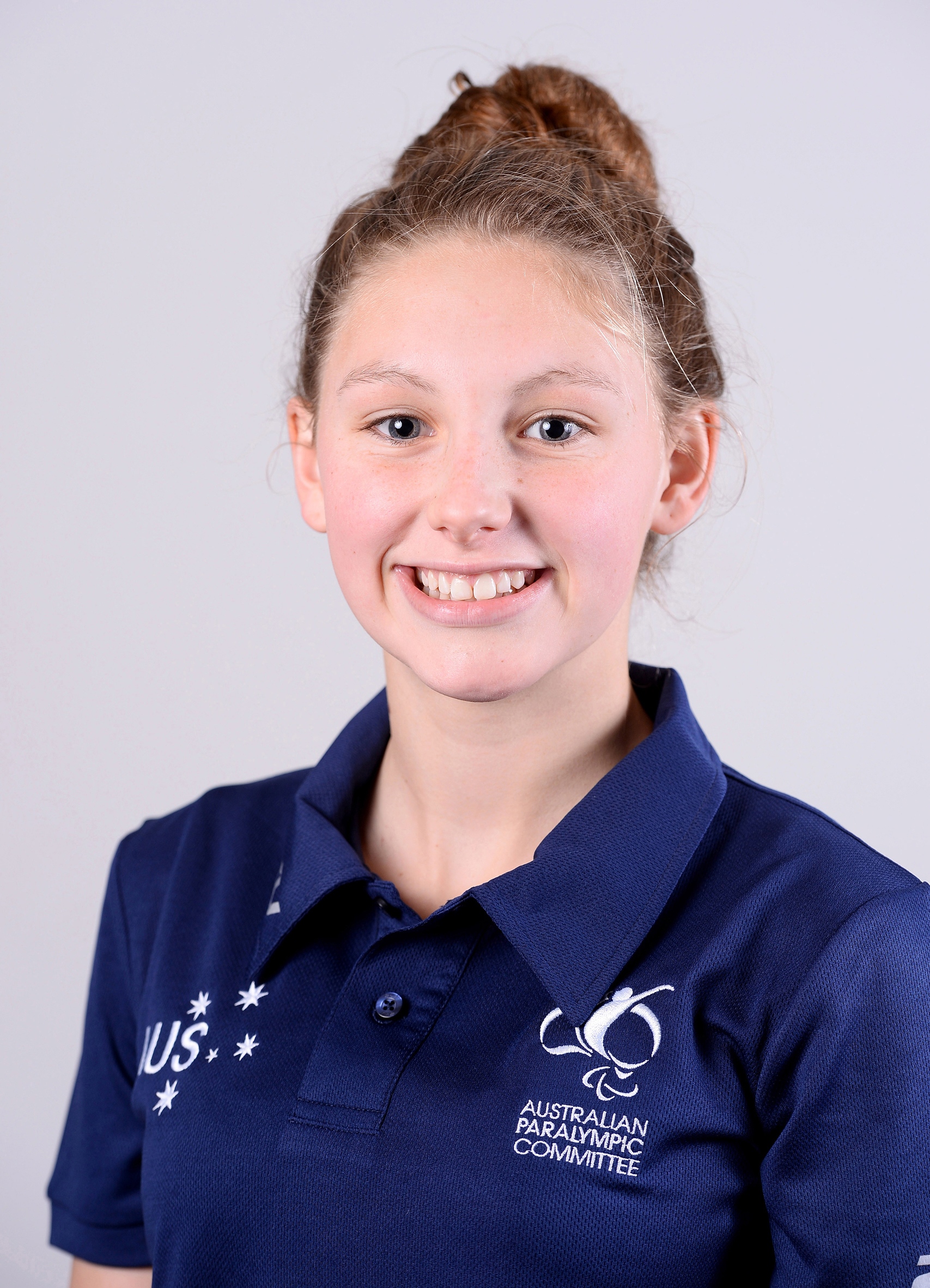 Portrait photograph of Jenna Jones taken at team processing session for shadow members of 2016 Australian Paralympic team